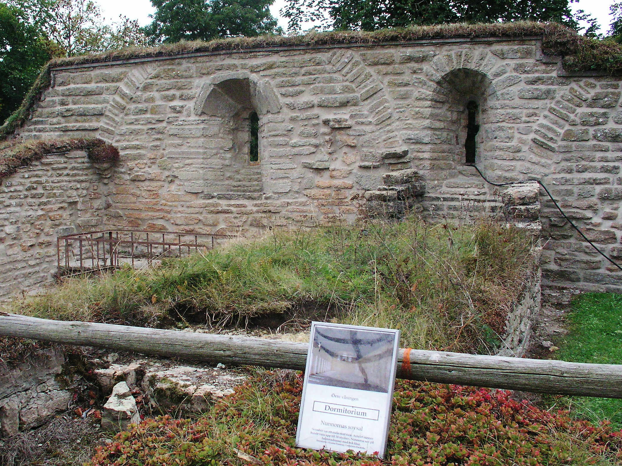 Vreta kloster. Restorated walls in the old monastery. The photo was taken by Håkan Svensson (Xauxa) the 28th September 2003.